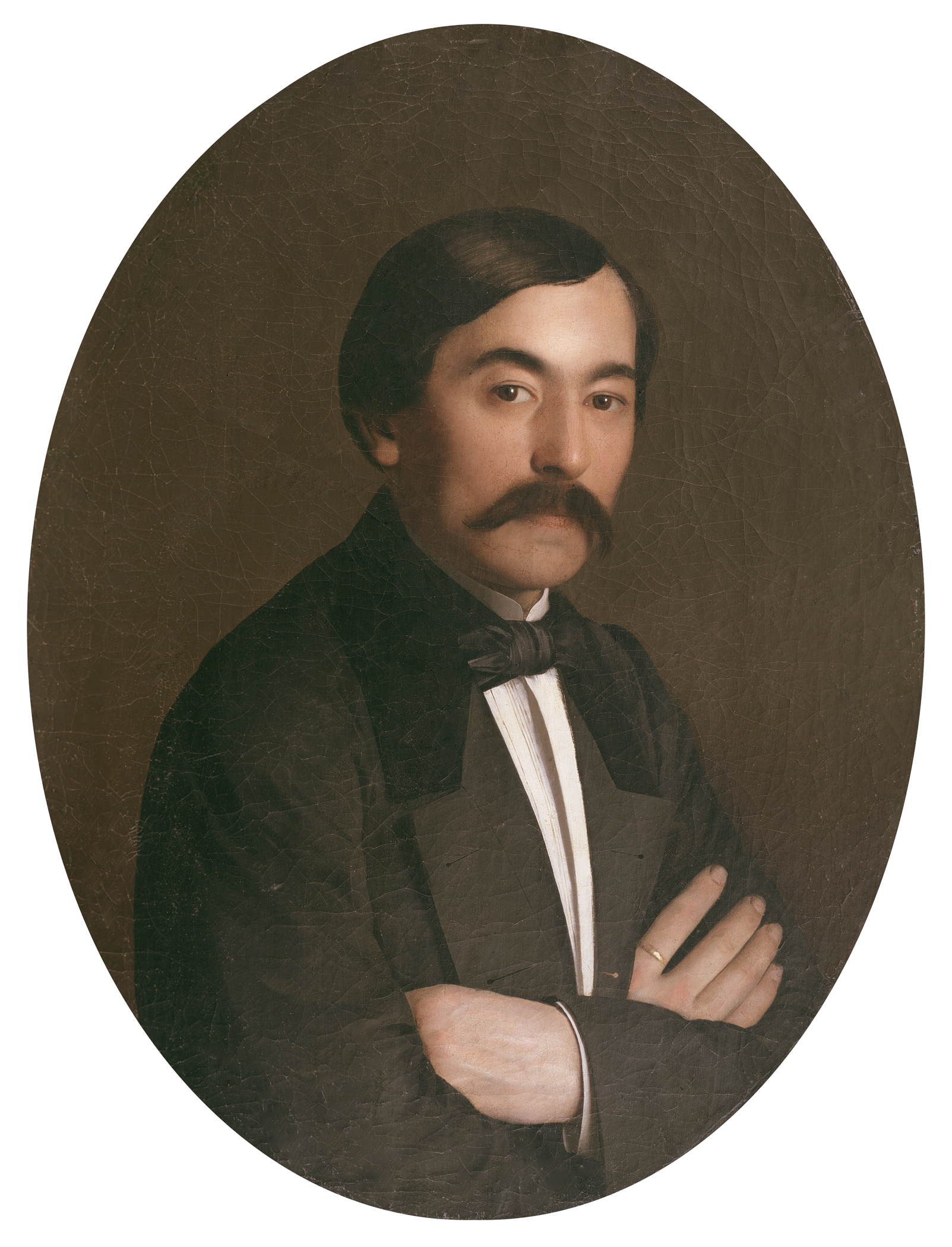 Pierre G. T. Beauregard. Painted portrait as a young man by Richard Clague. 30 by 24 inches, oil on canvas.